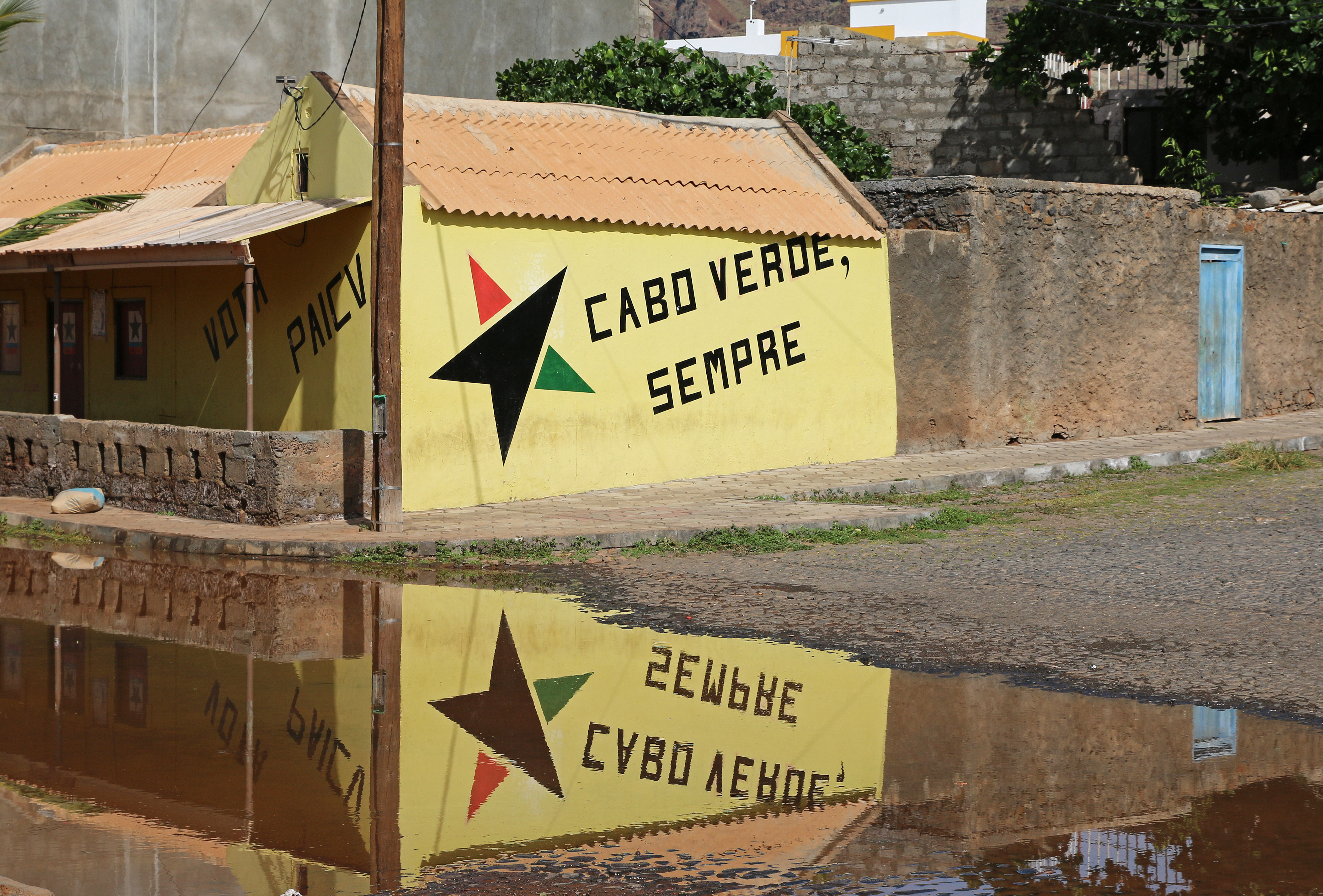 Building with advertisment for the political party PAICV in São Nicolau (Kap Verde)